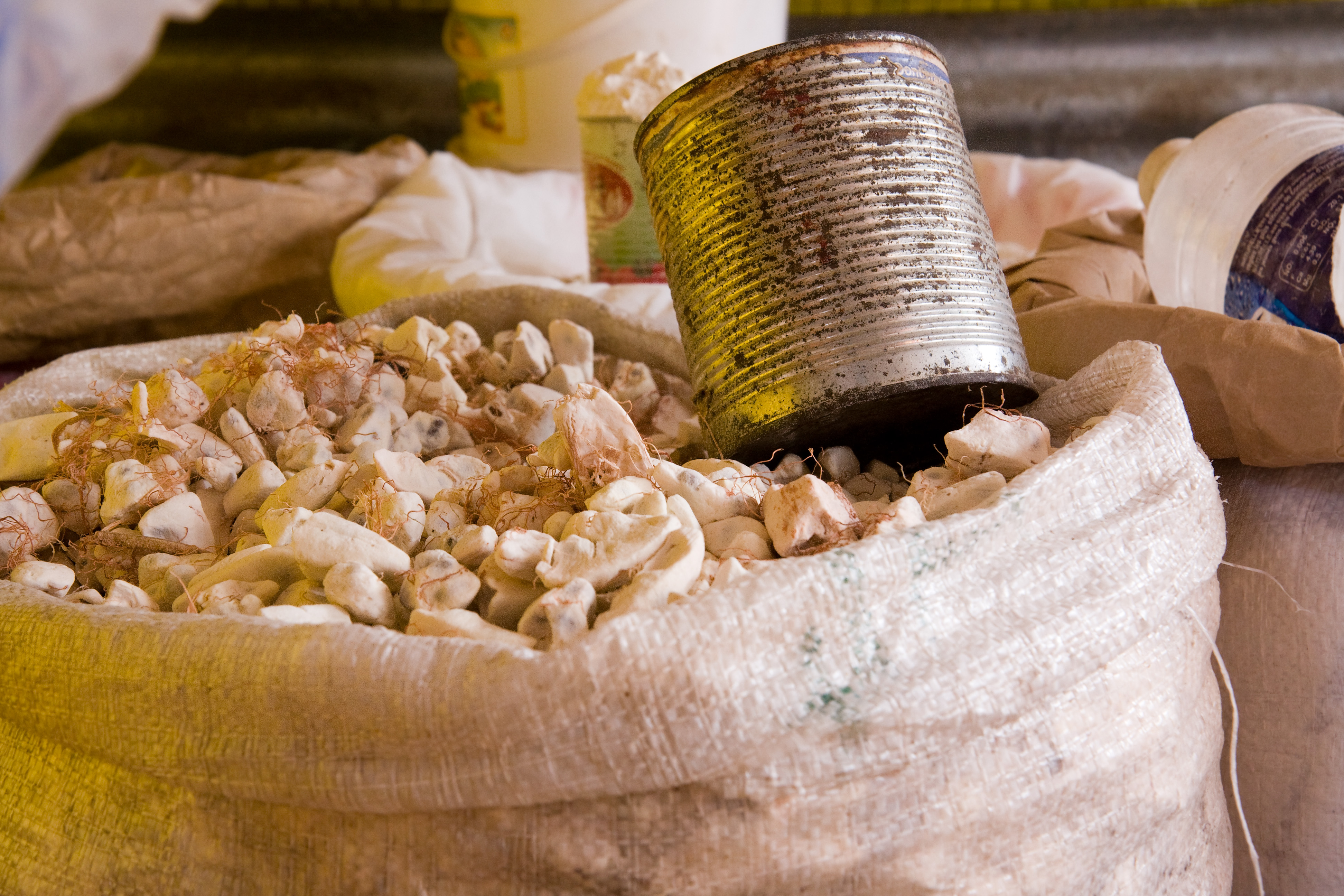 Pulp of a Baobab tree sold on the Serekunda market/The Gambia